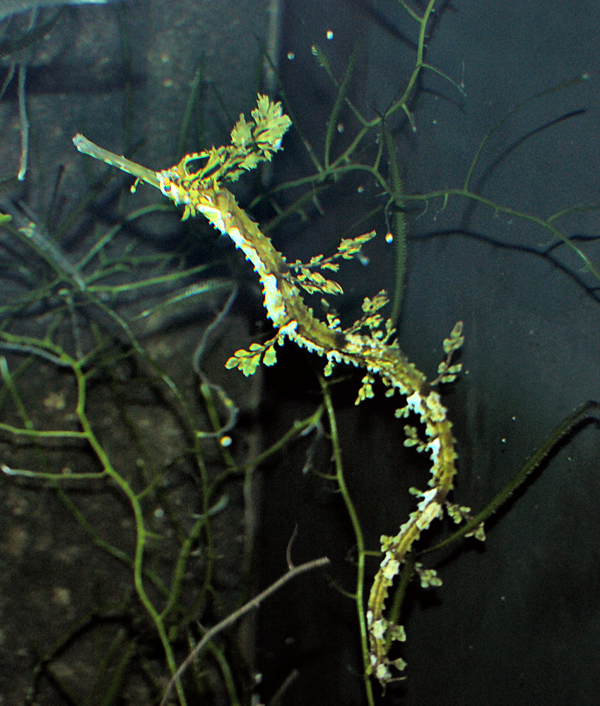 A ribboned pipefish, Haliichthys taeniophorus Gray, photographed at the Berlin Aquarium.